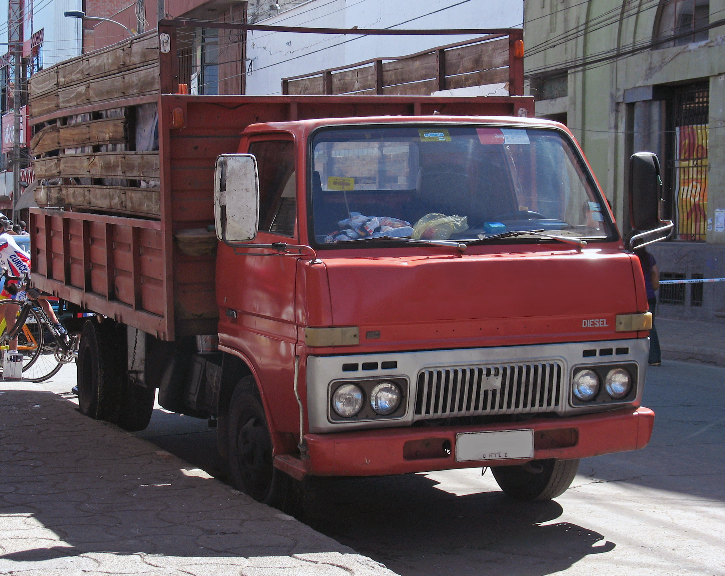 1983 Daihatsu Delta 2000 Diesel (V23), a late model of the second generation Delta truck. Related to the Hino Ranger 2.